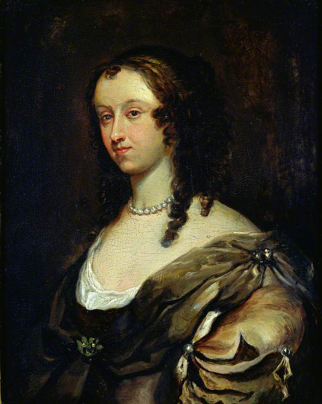 Portrait of Aphra Behn